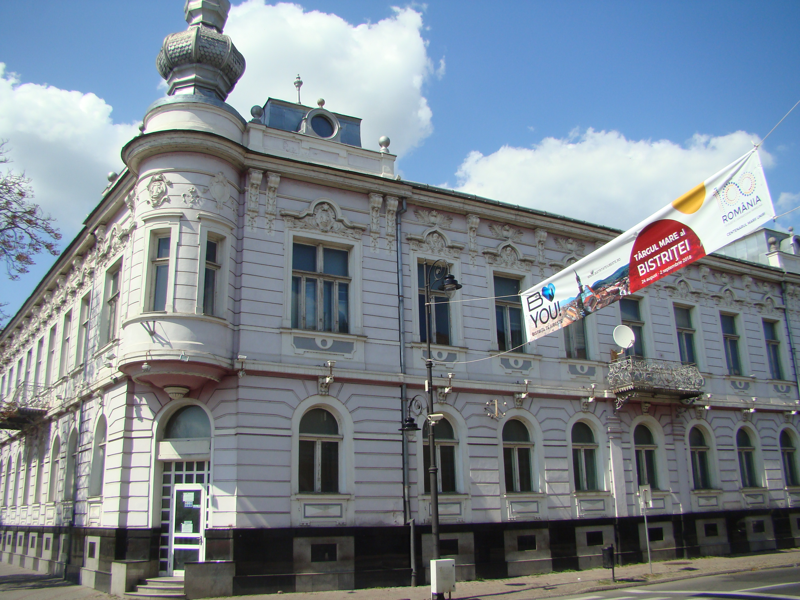 House, historic monument in Bistrița, Gheorghe Șincai street 32